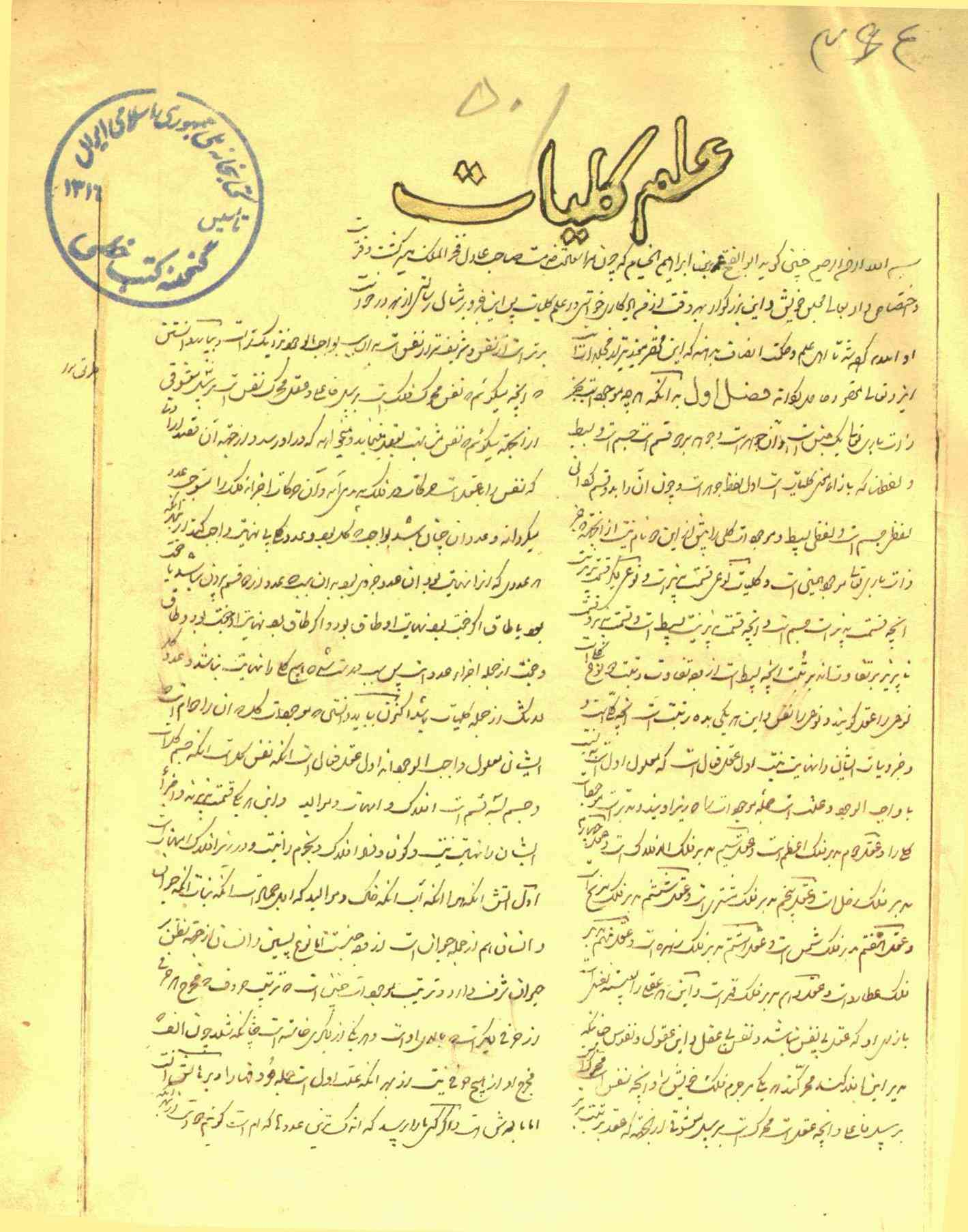 First page of Risālah dar ‘ilm kulliyāt-i wujūd, in Digital National library of iran